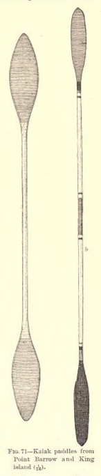 Double-blade kayak paddles, King Island (right) and Point Barrow (left) styles.